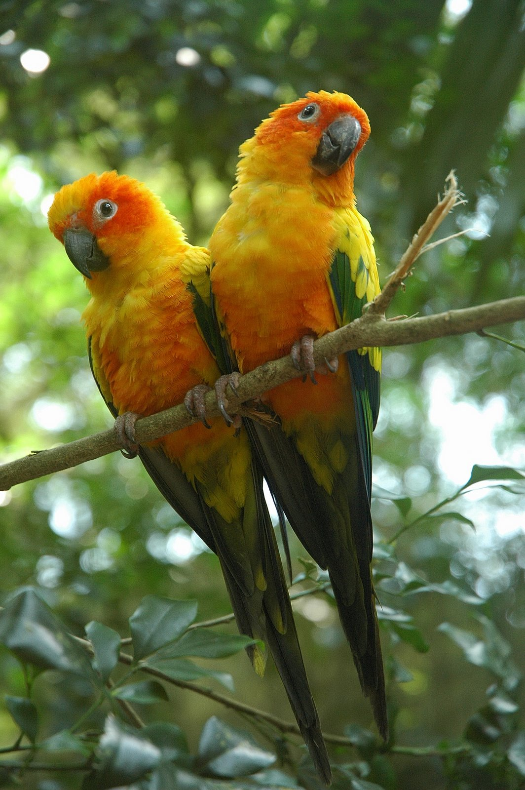 Two Sun Parakeets (also known as Sun Conure) in captivity.